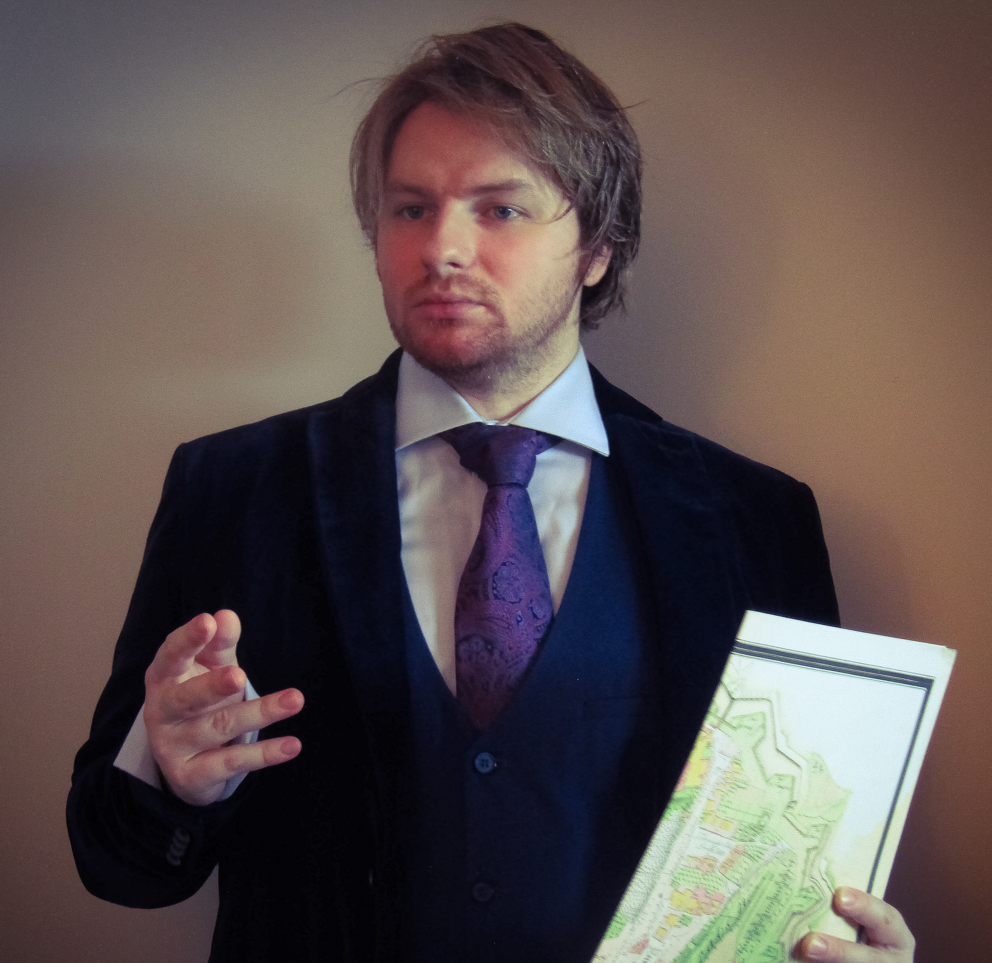 Martin Mares